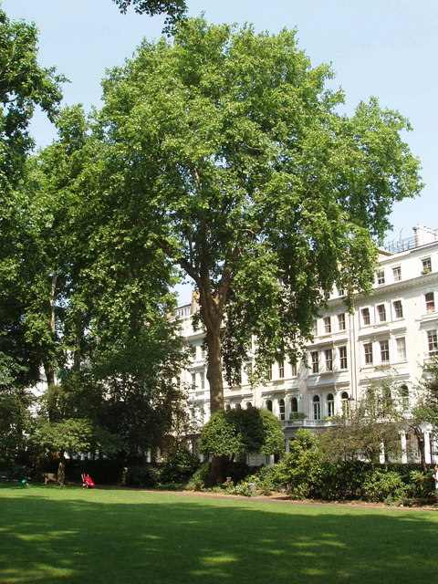 Plane tree, Cornwall Gardens The plane trees were planted in 1870 and are some of the tallest in London. The gardens were participating in Open Garden Squares Weekend.